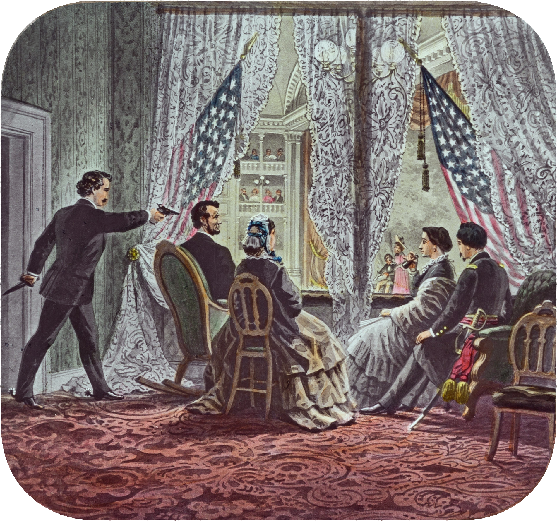 4"x3" slide depicting John Wilkes Booth leaning forward to shoot President Abraham Lincoln as he watches Our American Cousin at Ford's Theater in Washington, D.C. 14 April 1865.